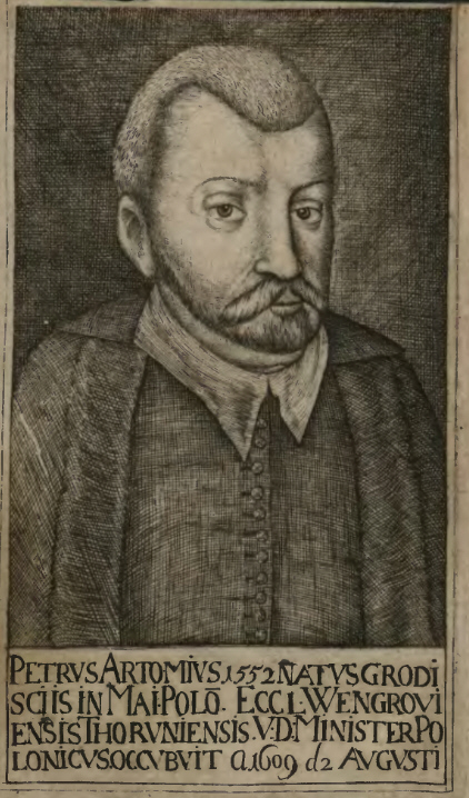 Portrait of Piotr Artomiusz